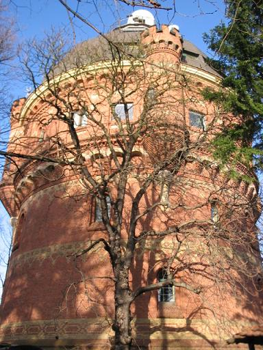 Water tower by Otto Techow (Fichtenberg, Berlin-Steglitz) – contemporary use as weather station by the Meteorological Institute, Free University of Berlin (Germany).